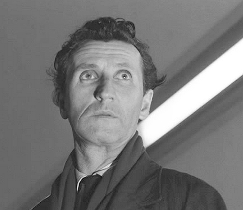 Mac Ronay in a scene of the film L'assassino